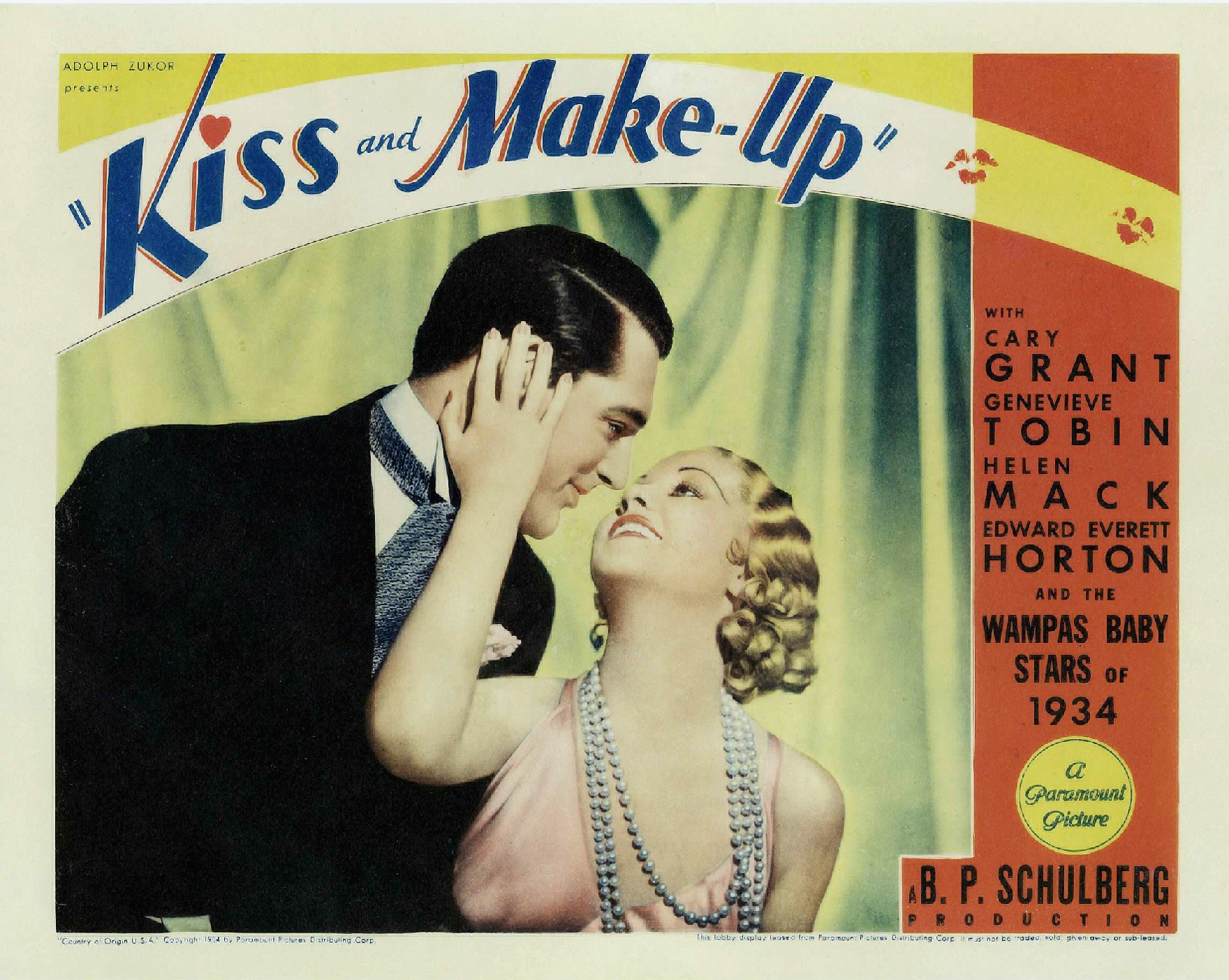 Lobby card for the 1934 film Kiss and Make Up A search for renewal was done in both film and artwork for the years 1961 and 1962. There were no listings for the film title nor any listings for Paramount in artwork. There's no evidence of continuing copyright on the film or its related materials.